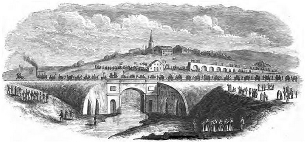 Entitled "The opening of the Stockton and Darlington Railroad in 1815 [sic] (After an old engraving)" The Stockton and Darlington Railway opened in 1825.